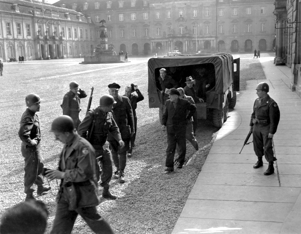 Defendants exiting transport vehicle in Ludwigsburg, Germany